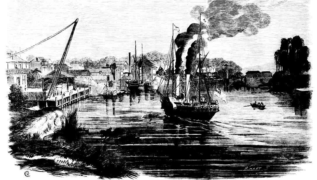 The river port town of Morpeth, New South Wales Australia c.1865, during the heyday of the port. The illustration shows steamships on the Hunter River using the port.